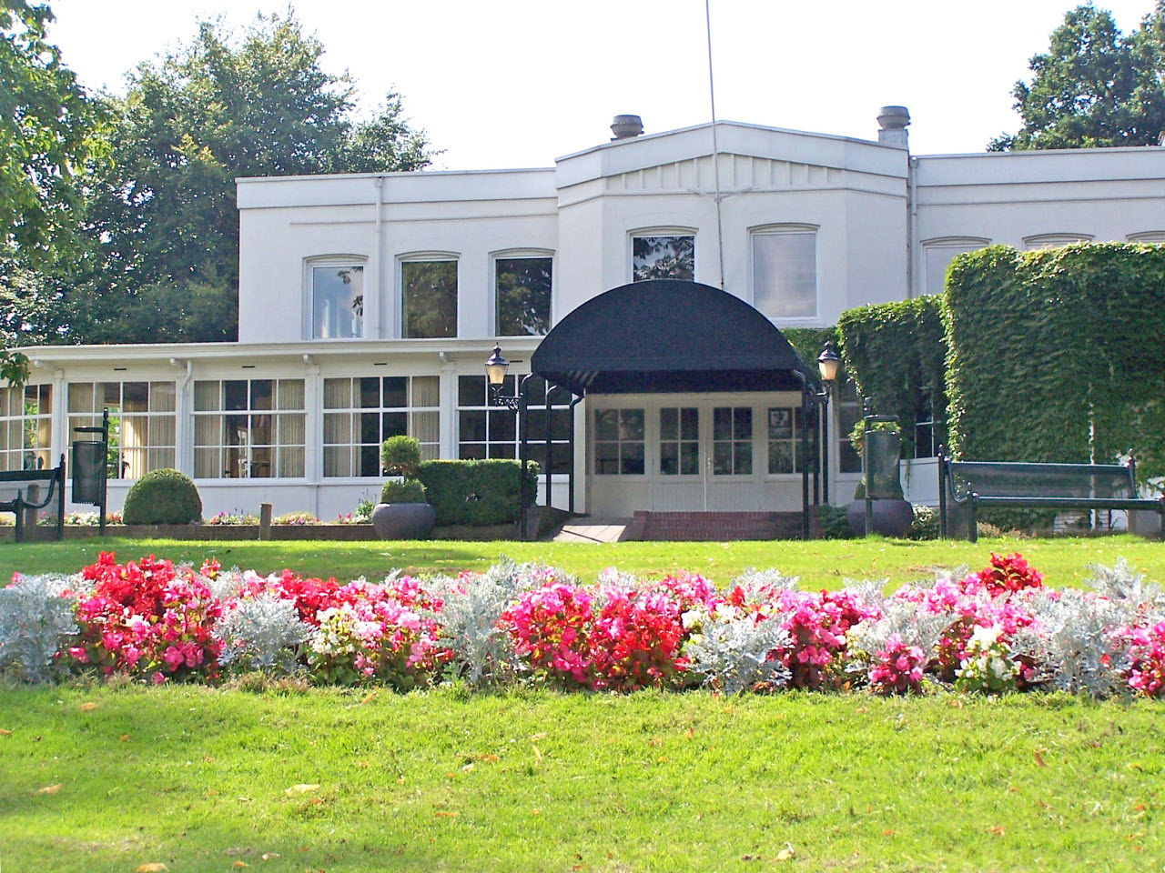 A view in the Volkspark in Enschede, Netherlands